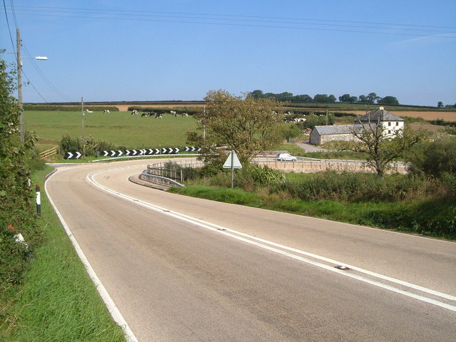 Knightshayne Cottage and bend. A sharp bend that will be recognised by motorists on the busy A303 across the Blackdown Hills, as the road descends into the Yarty valley at Marsh on its way out of Devon towards London. Given its noisy location, it is perhaps not surprising that the cottage has a rather neglected air.